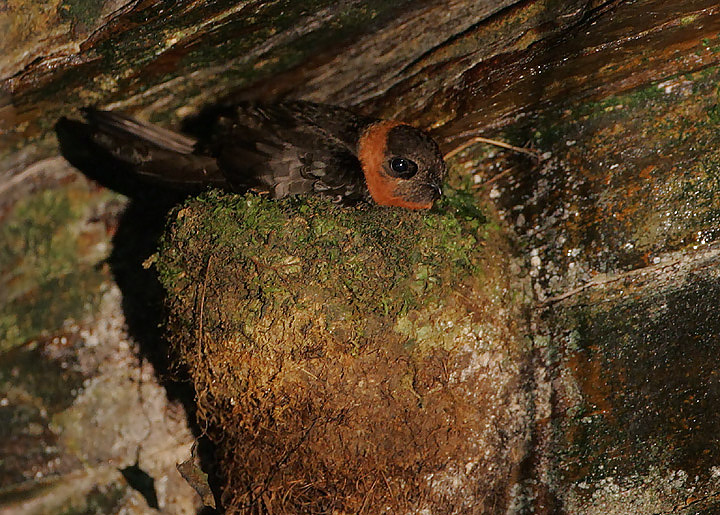 An adult male on the nest. Photographed outside the Oilbird cave in the grounds of the Asa Wright Centre, Trinidad.